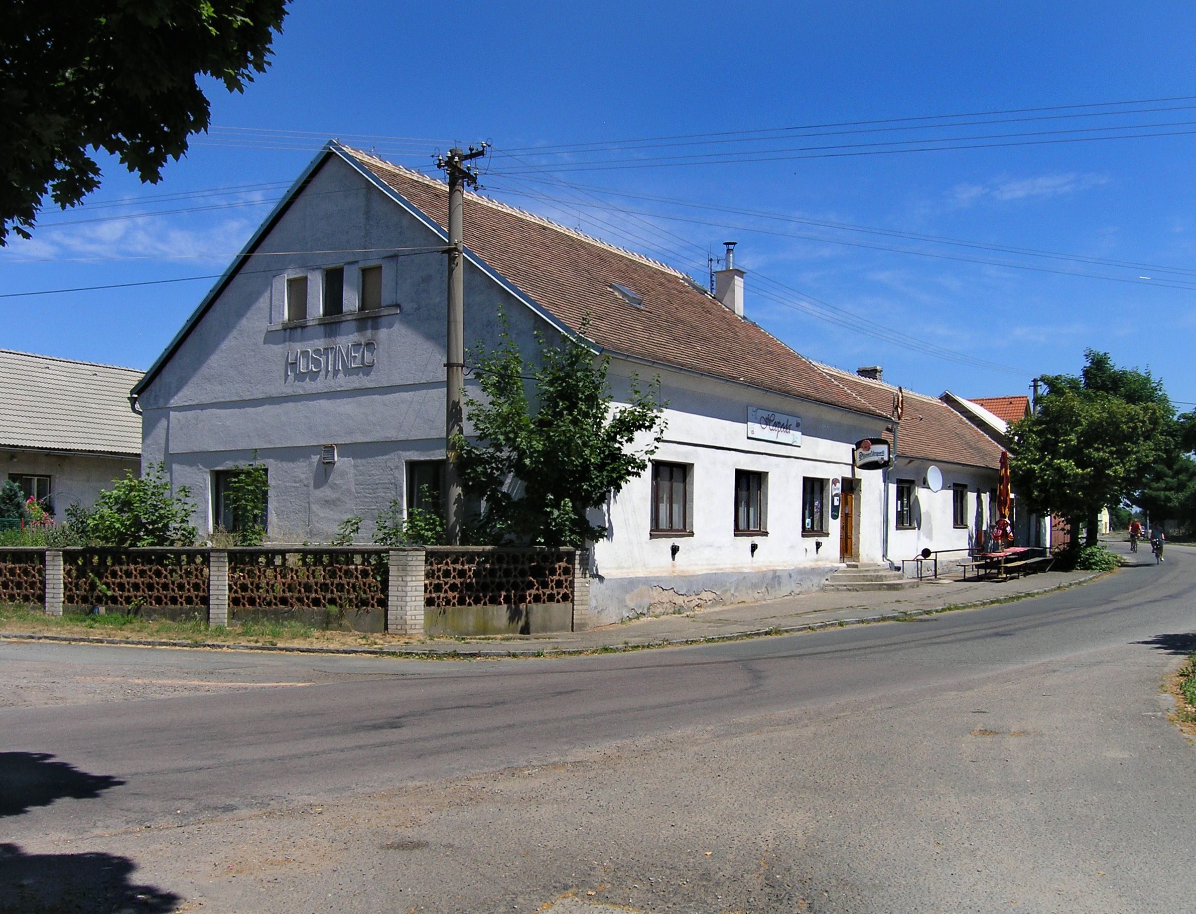 Restaurant in Lohenice, part of Přelouč, Czech Republic